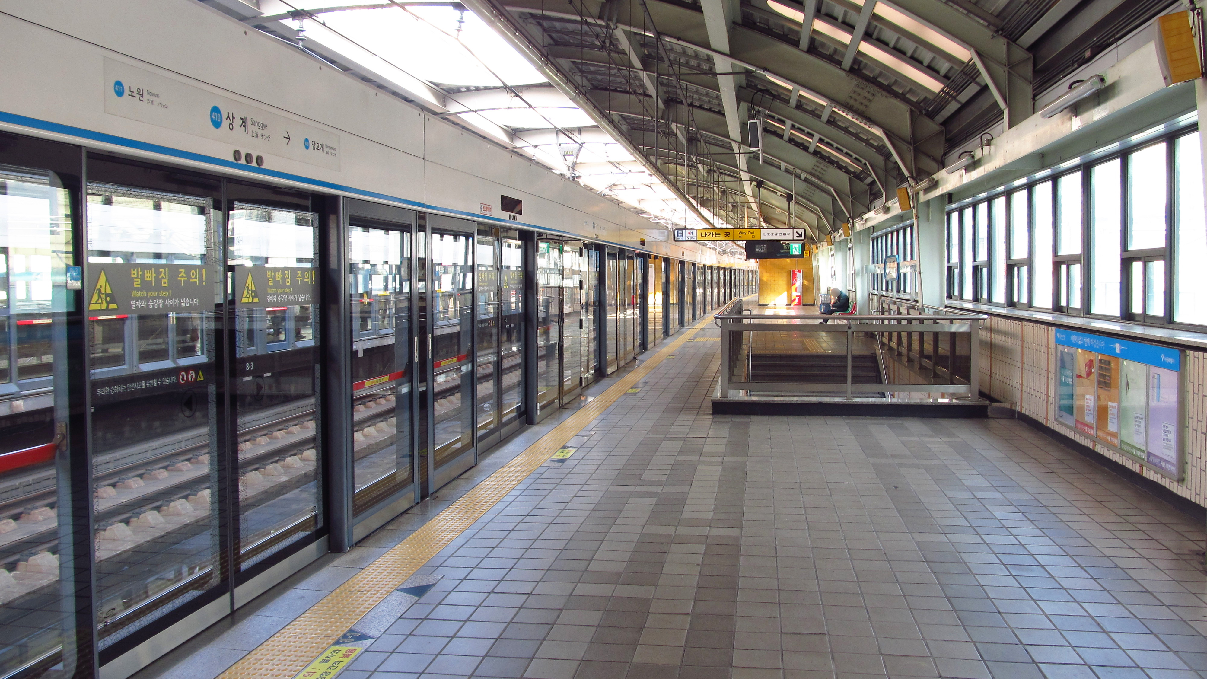 The platform at Sanggye Station on Seoul Subway Line 4 in Nowon-gu, Seoul, Republic of Korea(South Korea)